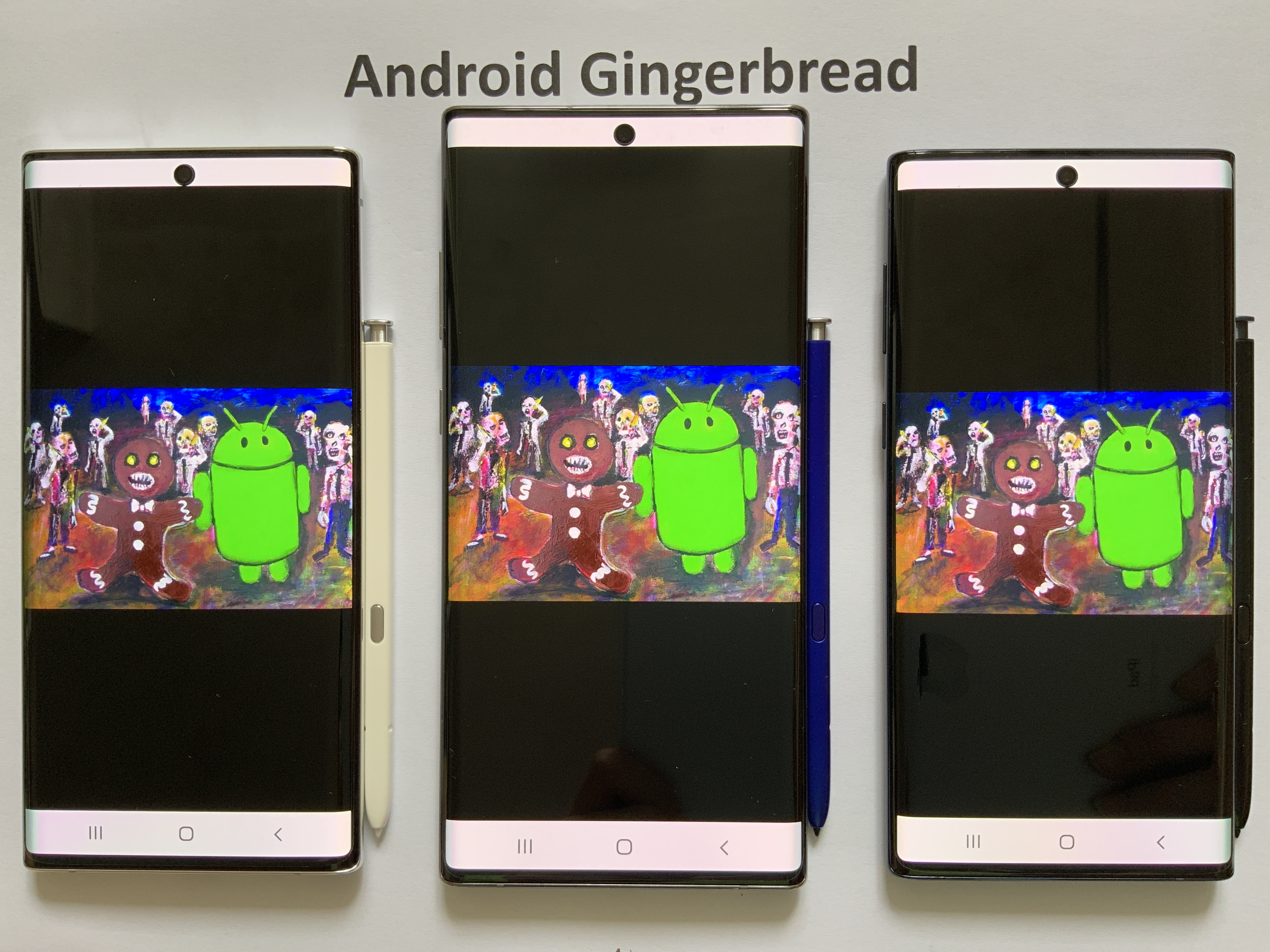 Android Gingerbread Easter eggs shown on Samsung Galaxy Note 10 series